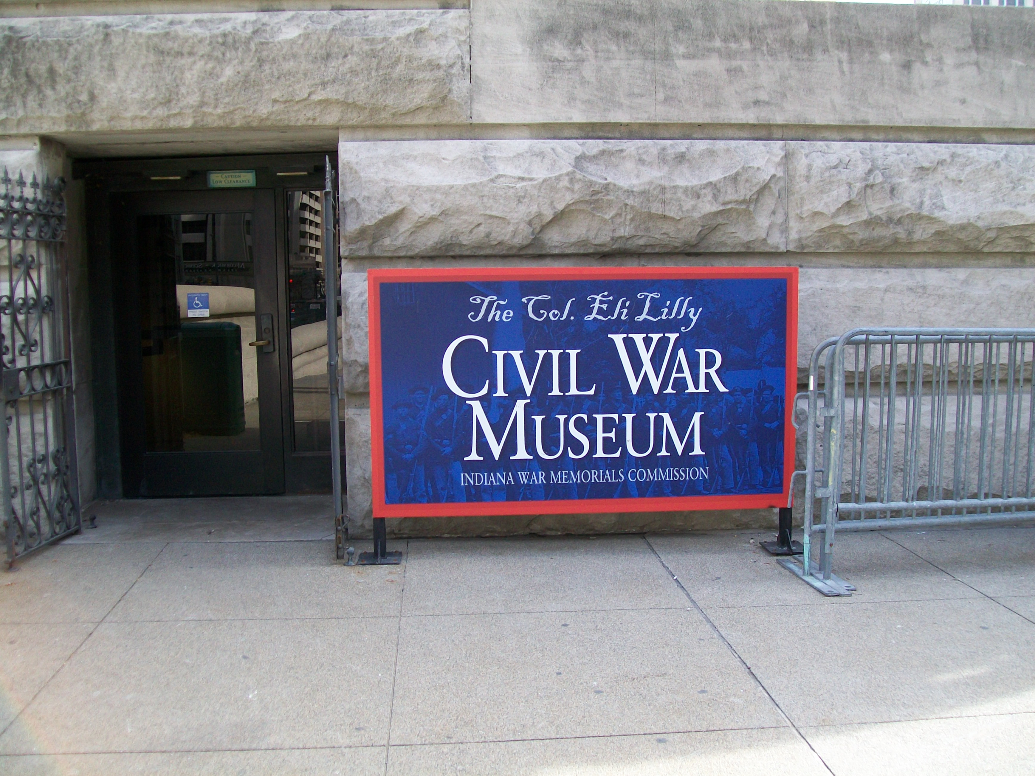 Entrance to the Eli Lilly American Civil War Museum in Indianapolis Indiana